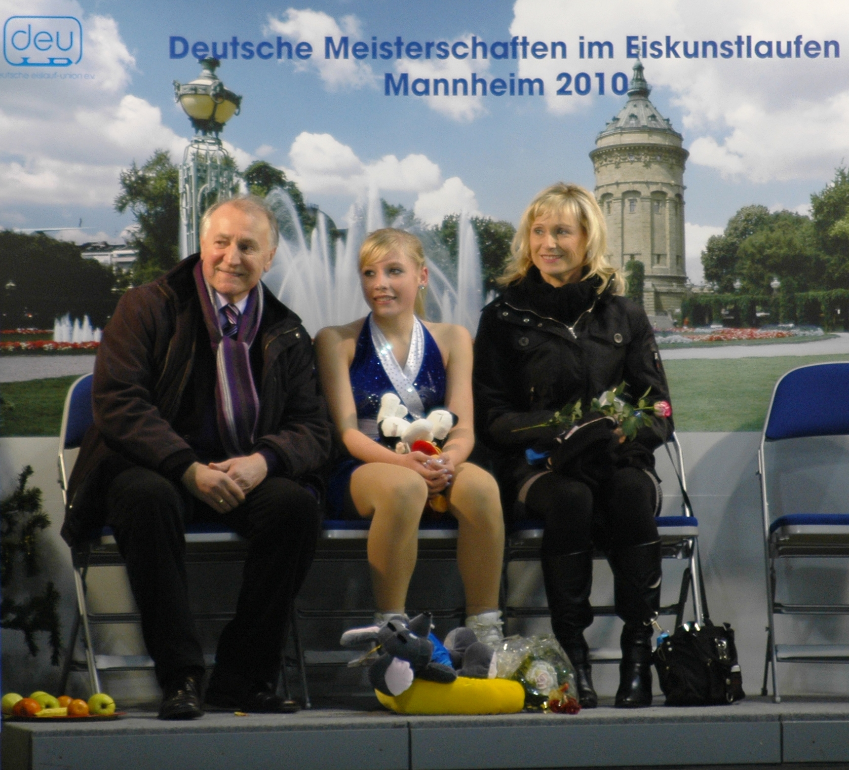 Claudia Leistner with her daughter and coach Sczypa